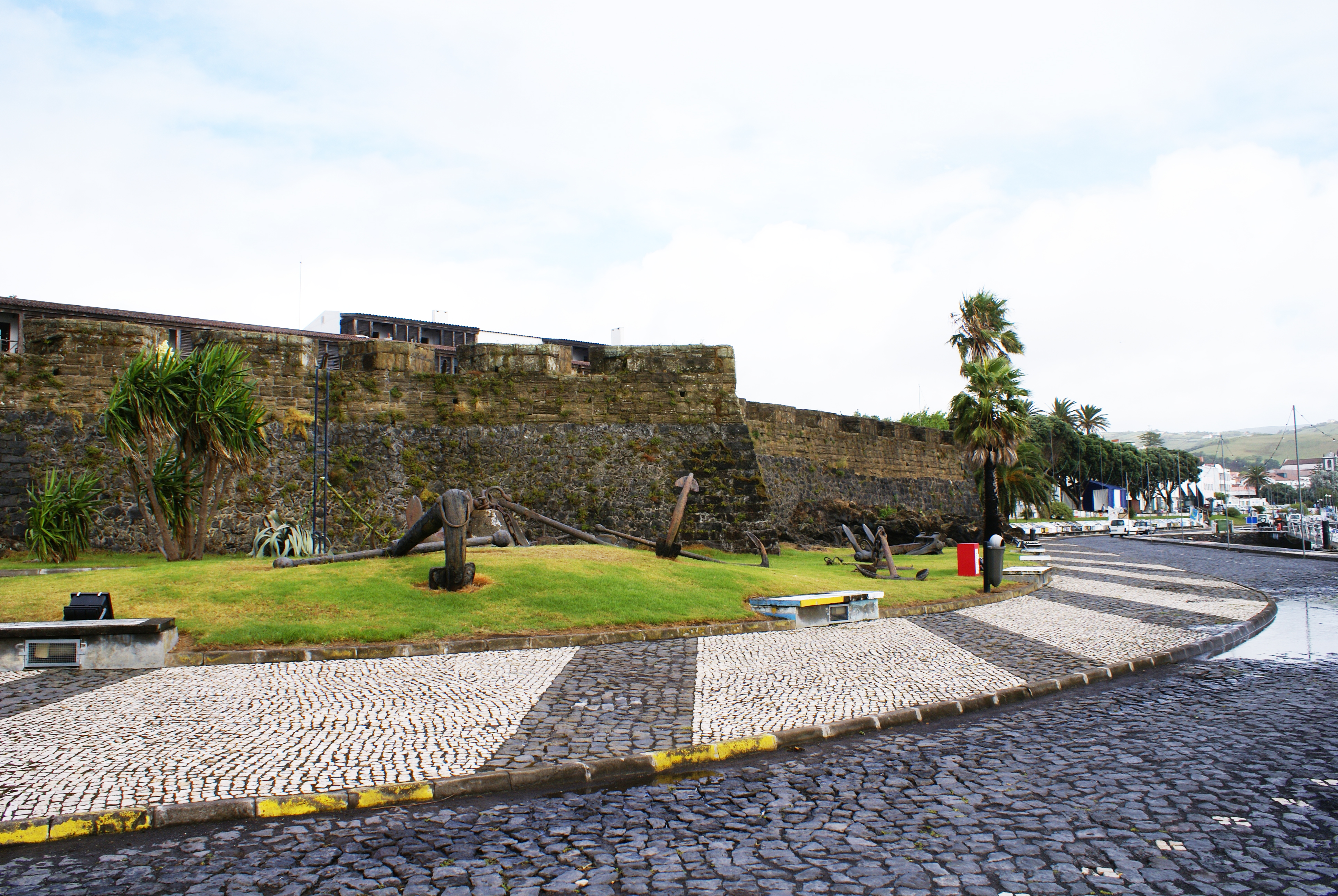 The walls of the Fort of Santa Cruz, Angústias, Horta (Azores), Portugal